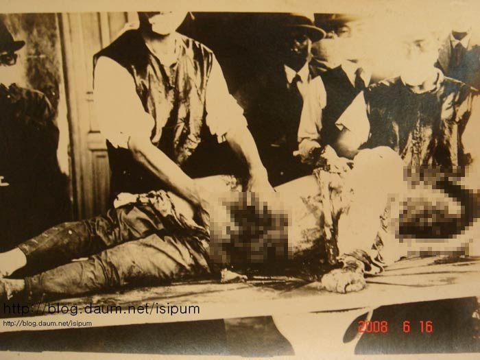 Autopsy on a Japanese victim killed by the Chinese, at Jinan Hospital in May 1928.